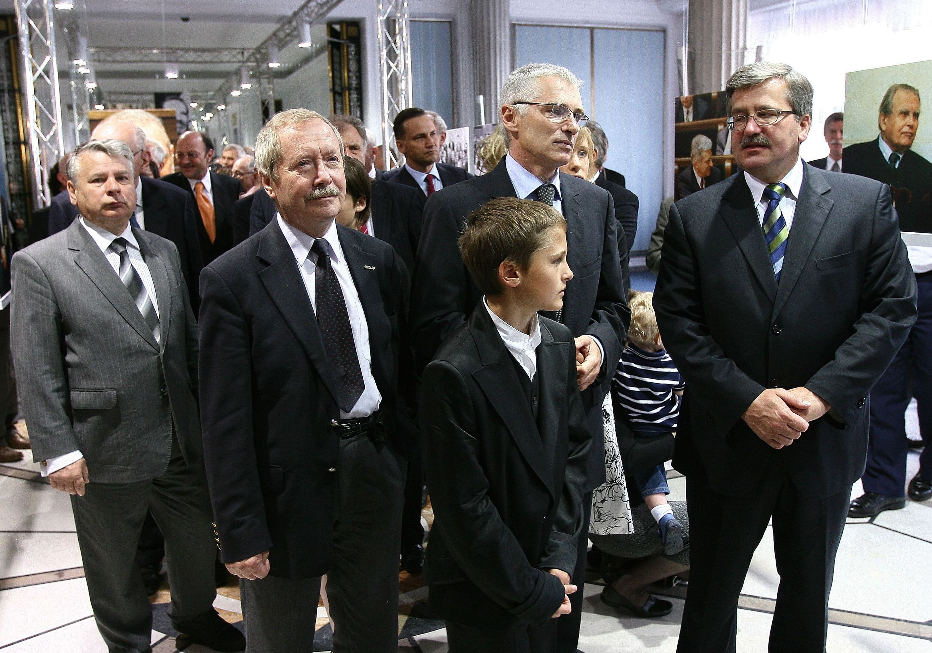 Exhibition "Bronisław Geremek - politician of freedom and solidarity" in the Polish Sejm